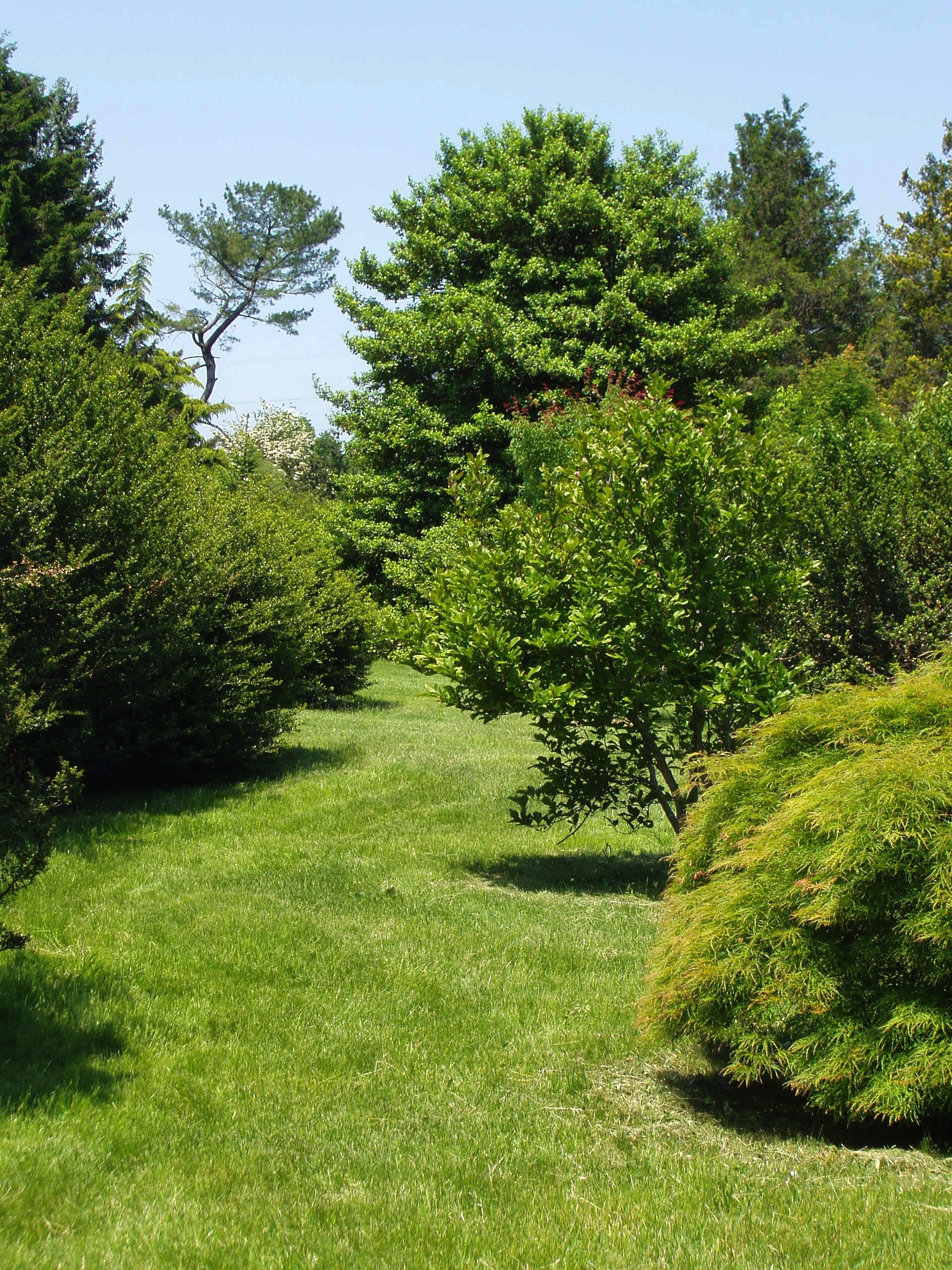 Photograph of Rutgers Gardens, Rutgers University, East Brunswick, New Jersey, USA. Arboretum.